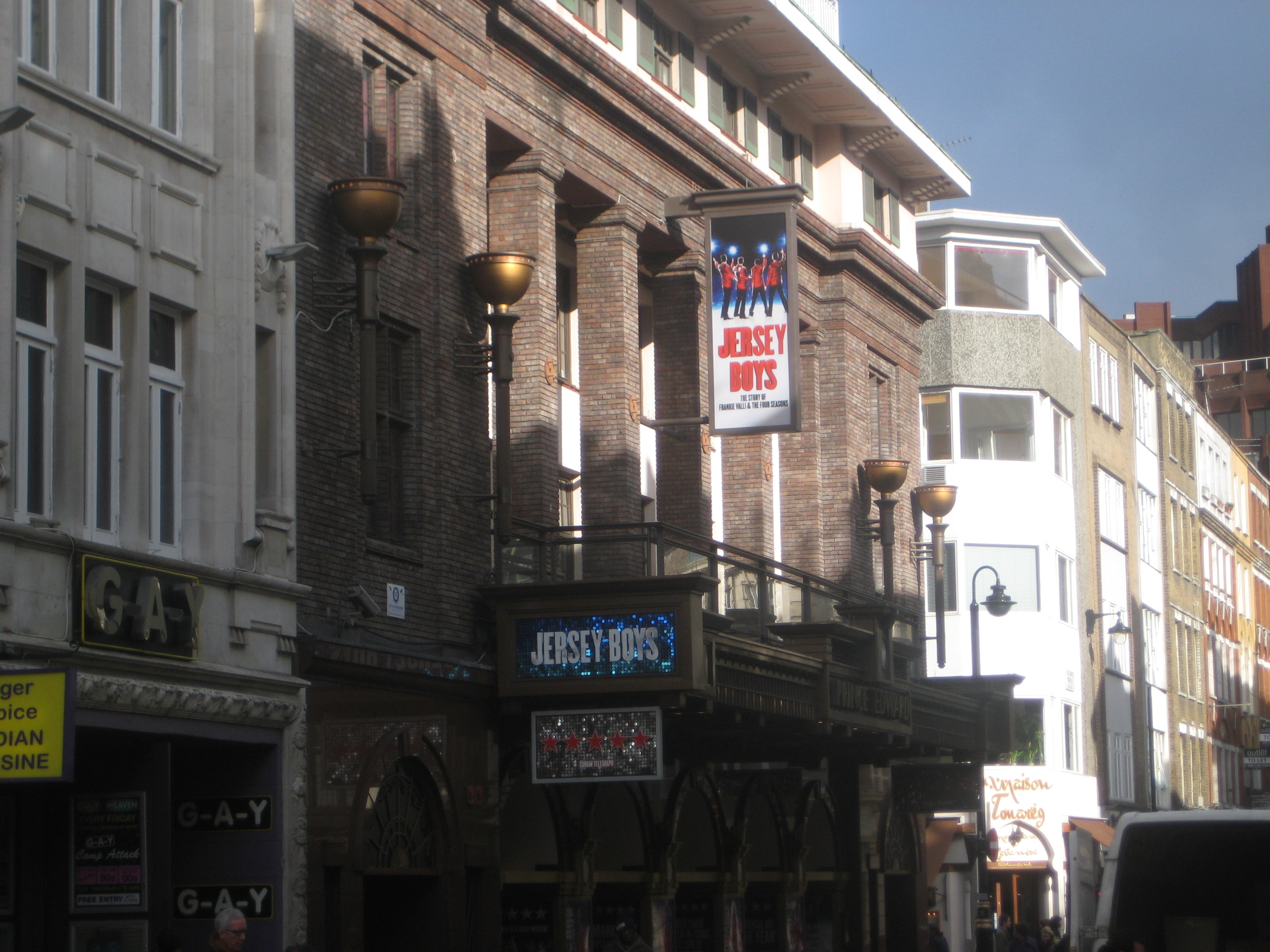 Jersey Boys at the Prince Edward Theatre, London